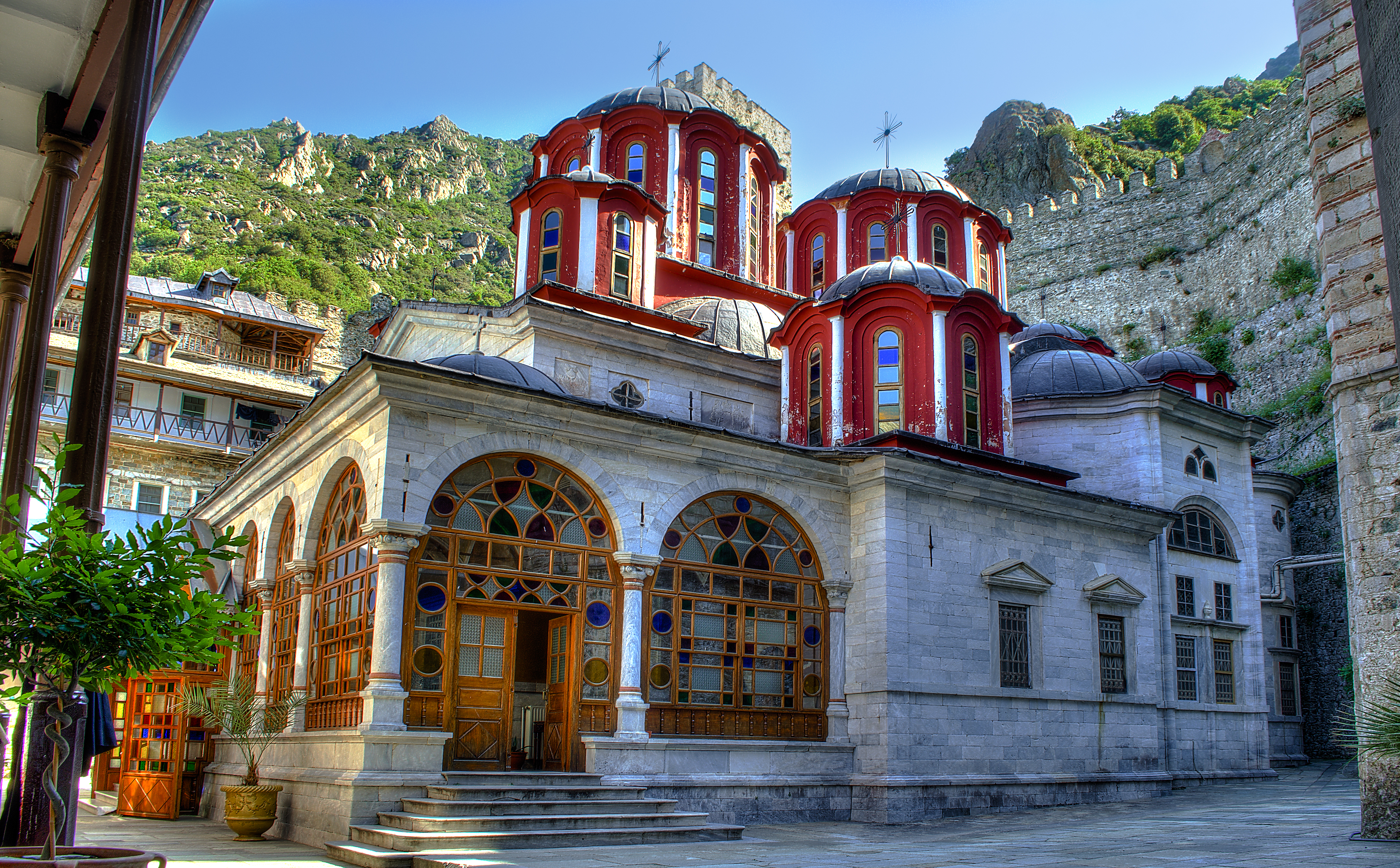 inside - 2012